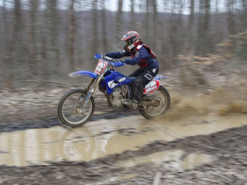 Hare scramble racer Jennifer Roberts at Hyden, KY.